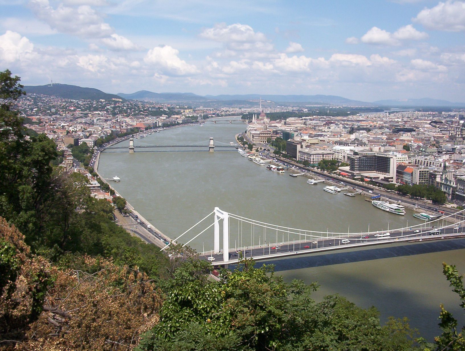 The Hungarian capital city of Budapest, from Gellért Hill. Approximate elevation: 160 m.